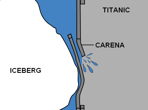 This image depcits how the iceberg damaged the RMS Titanic's hull causing the ship to sink.